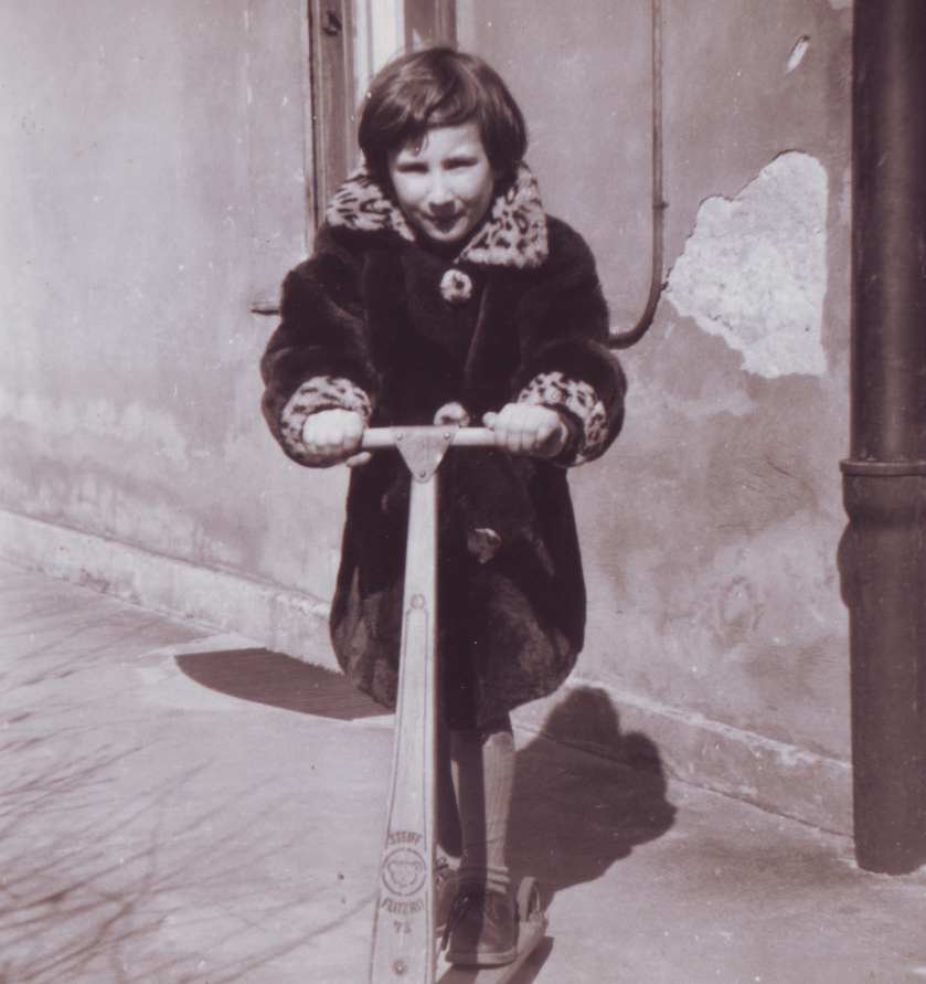 Beaver-lamb fur coat. Berlin, Germany